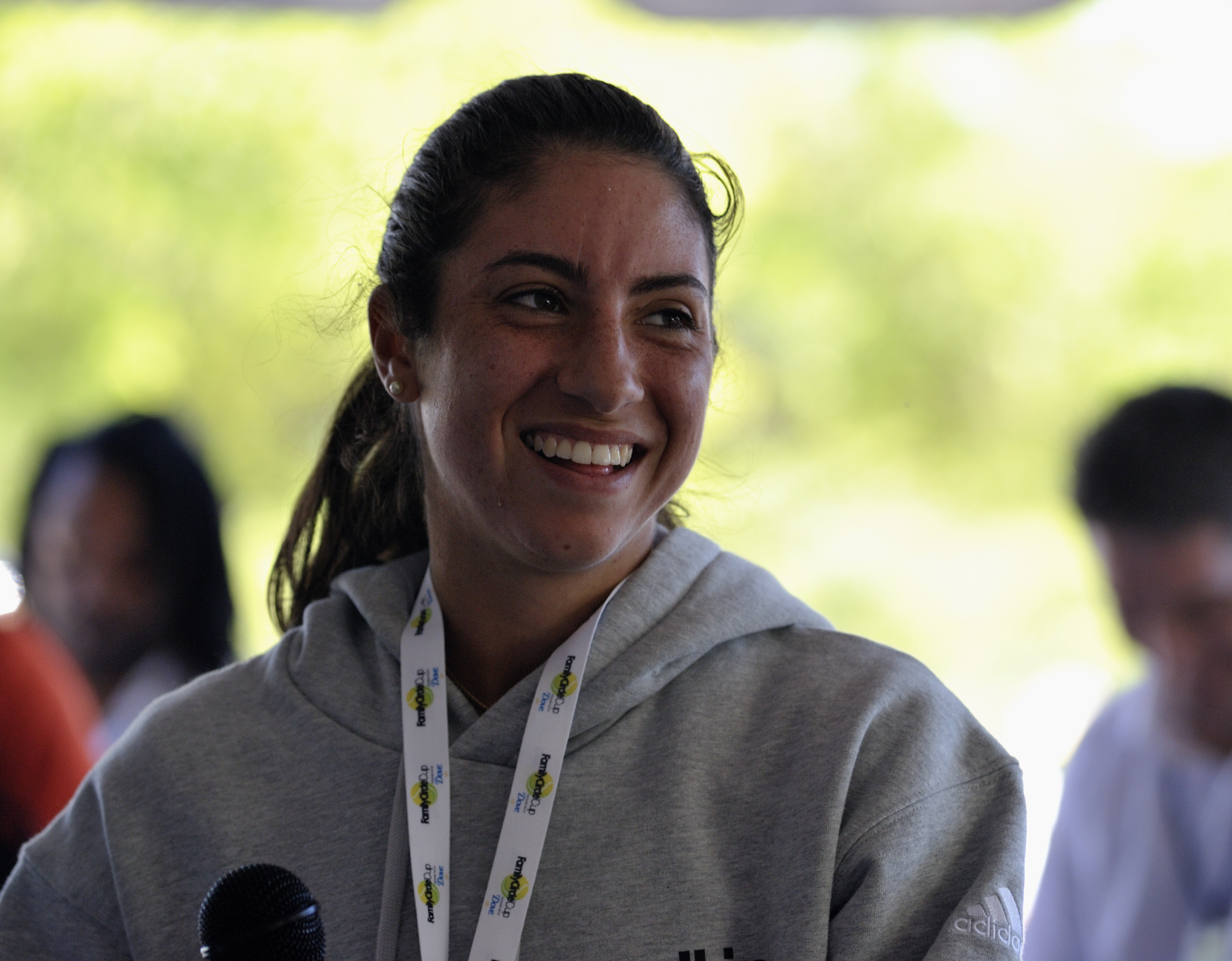 McHale at USTA lunch